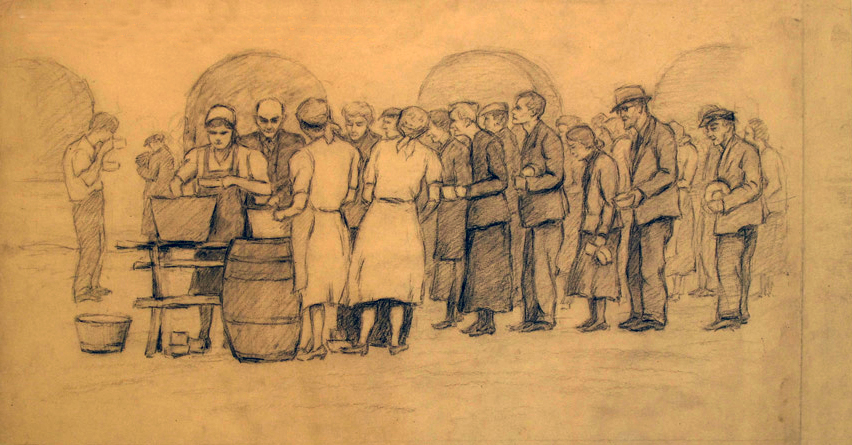 Artwork from the Theresienstadt ghetto